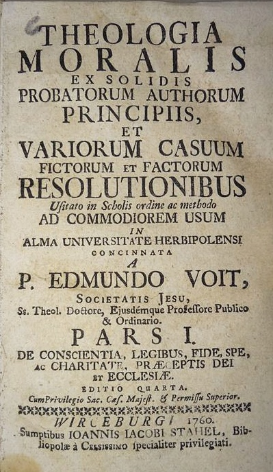 Titelblatt (1760) der Moraltheologie von Pater Edmund Voit S.J. (1707-1780)